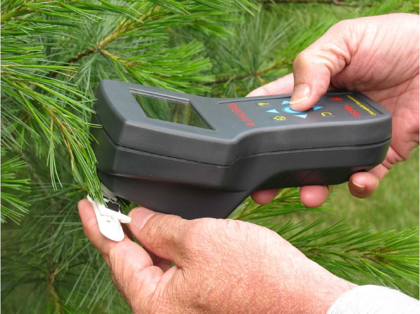 OS30p+ fluorometer being used to measure plant stress in the field